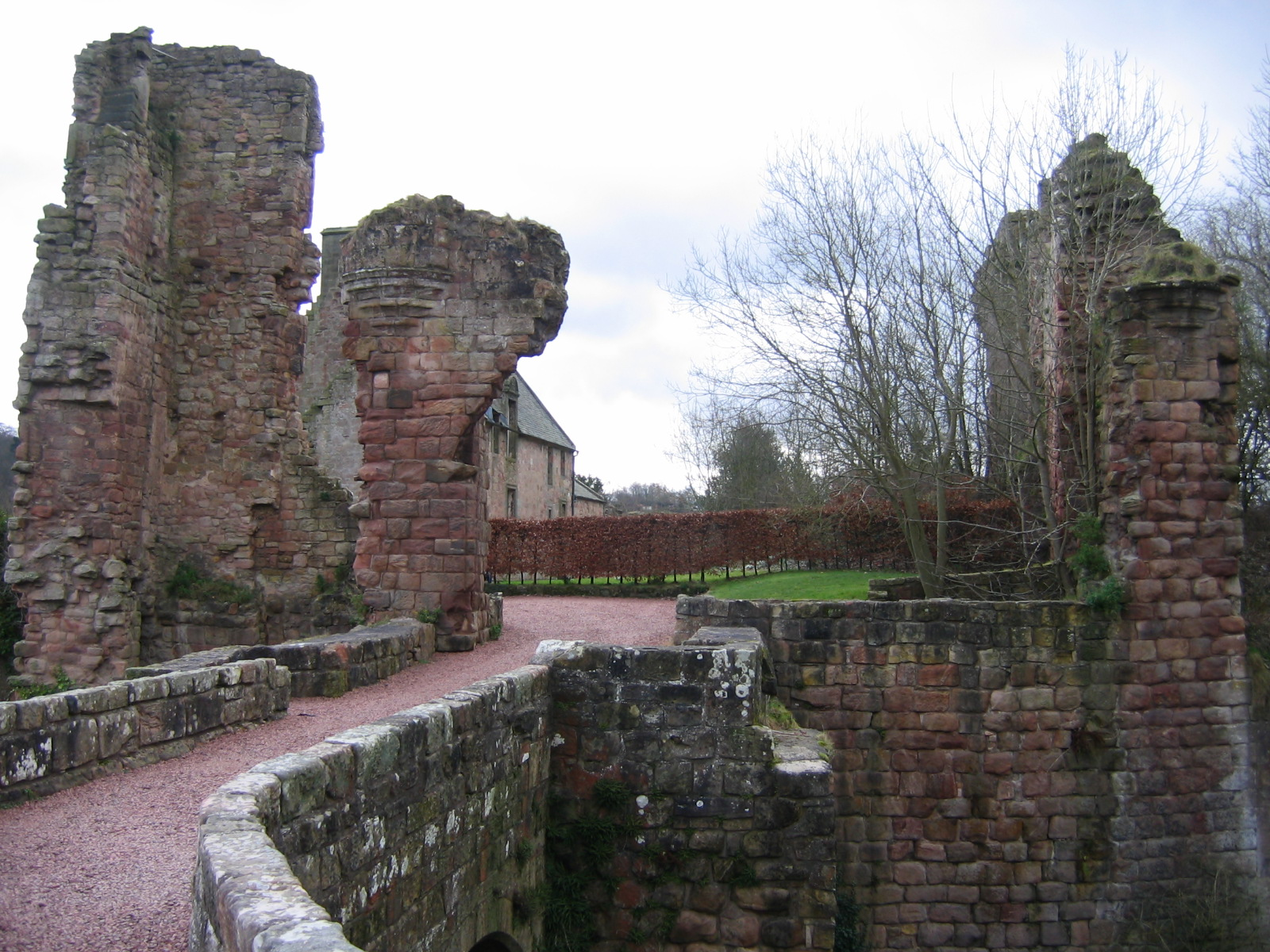 Entrance to Roslin Castle, near Edinburgh, Scotland.